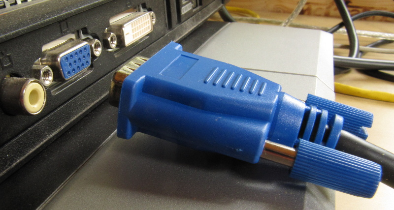 VGA-Jack and Conector